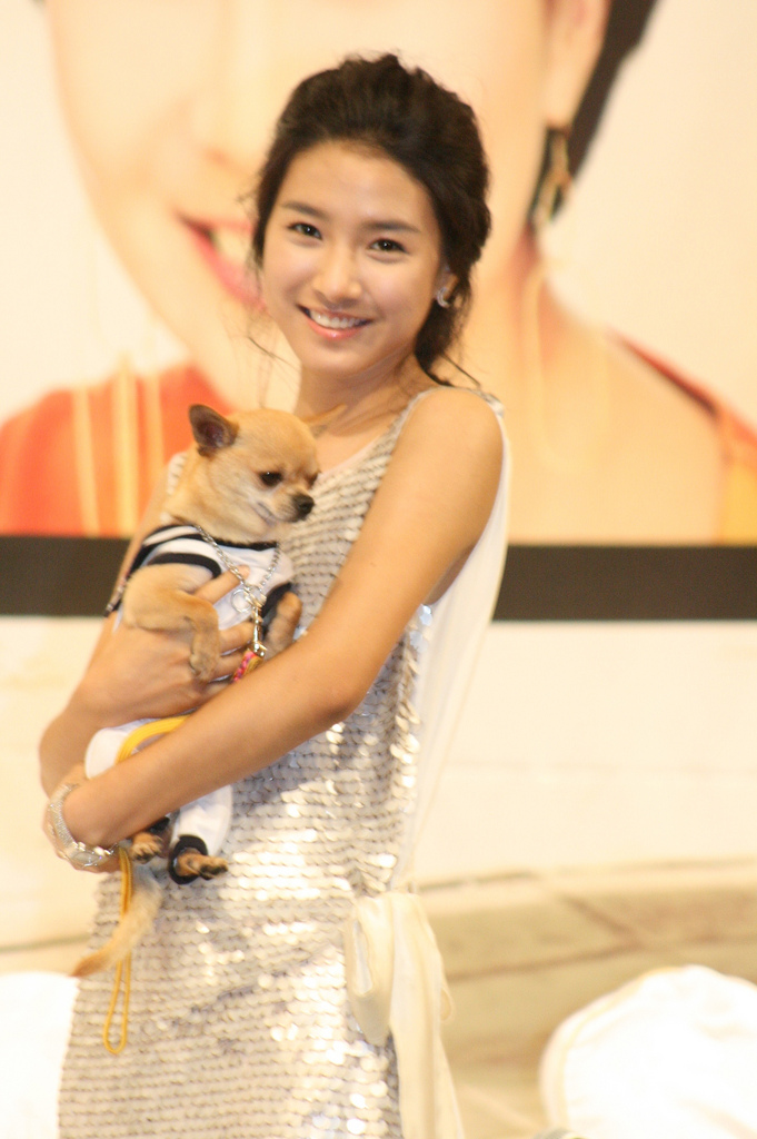 사진 061